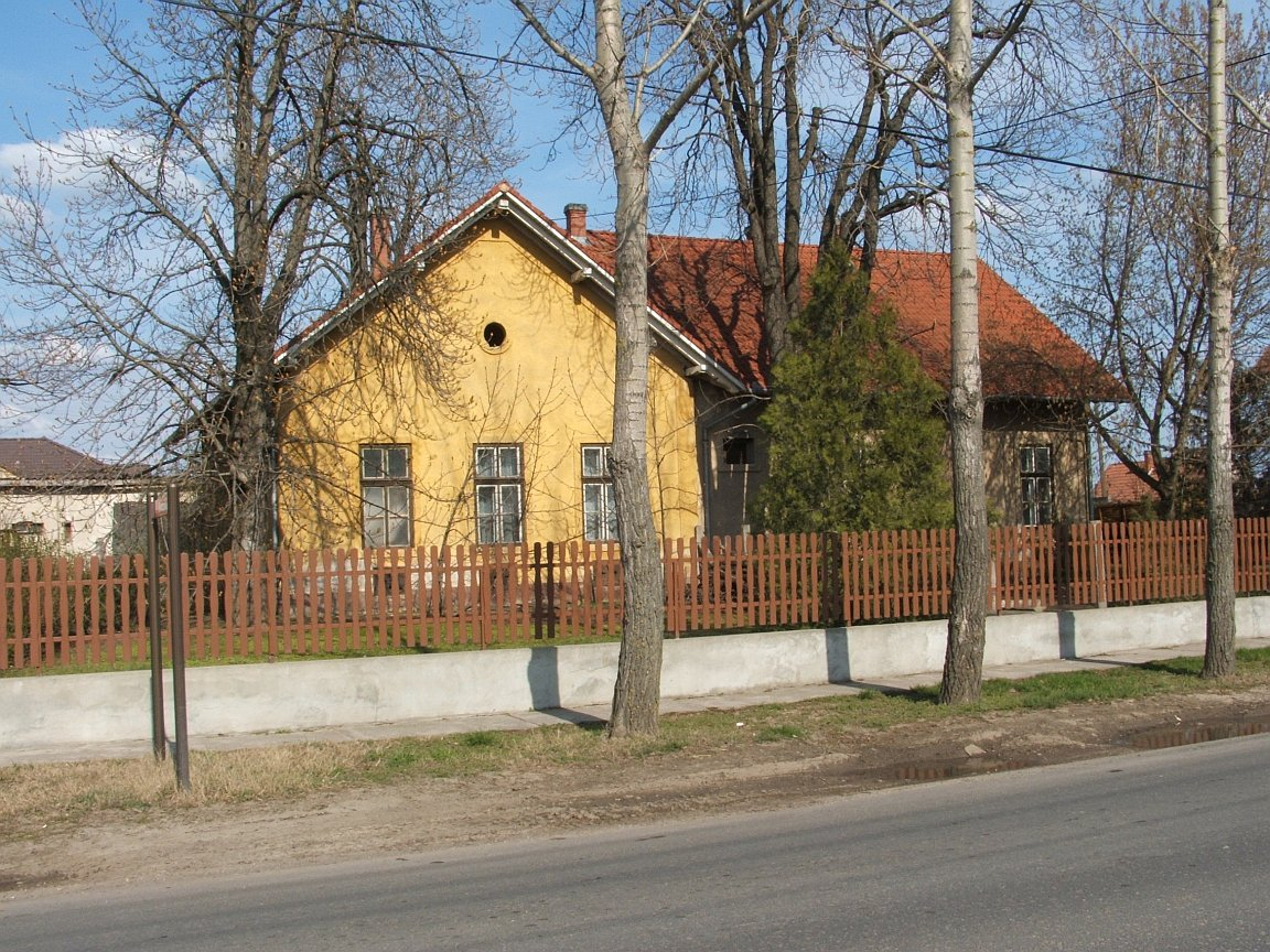 Ex-Railway station in Kerekegyháza